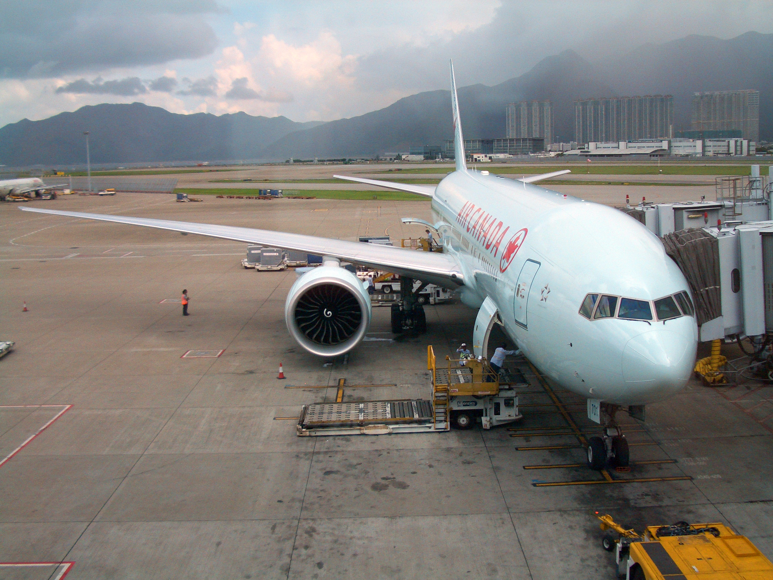 Air Canada B777-233LR LN: 640 C-FIUA at Hong Kong International Airport